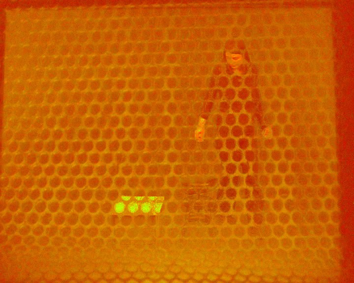 "entry yellow", Experimentalfilm (concept: Installation), LOOP, 1 min., 2010